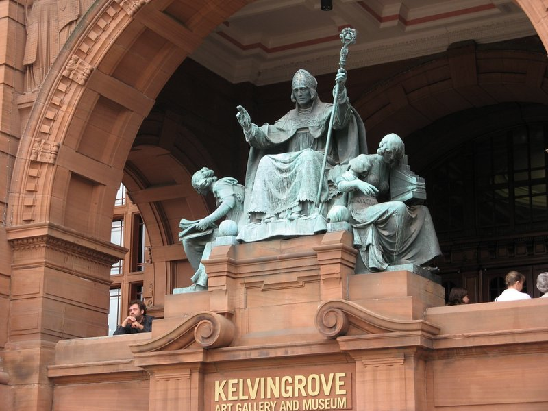 St. Mungo as the Patron of Art and Music, Kelvingrove Art Gallery and Museum, Glasgow, sculpted by George Frampton